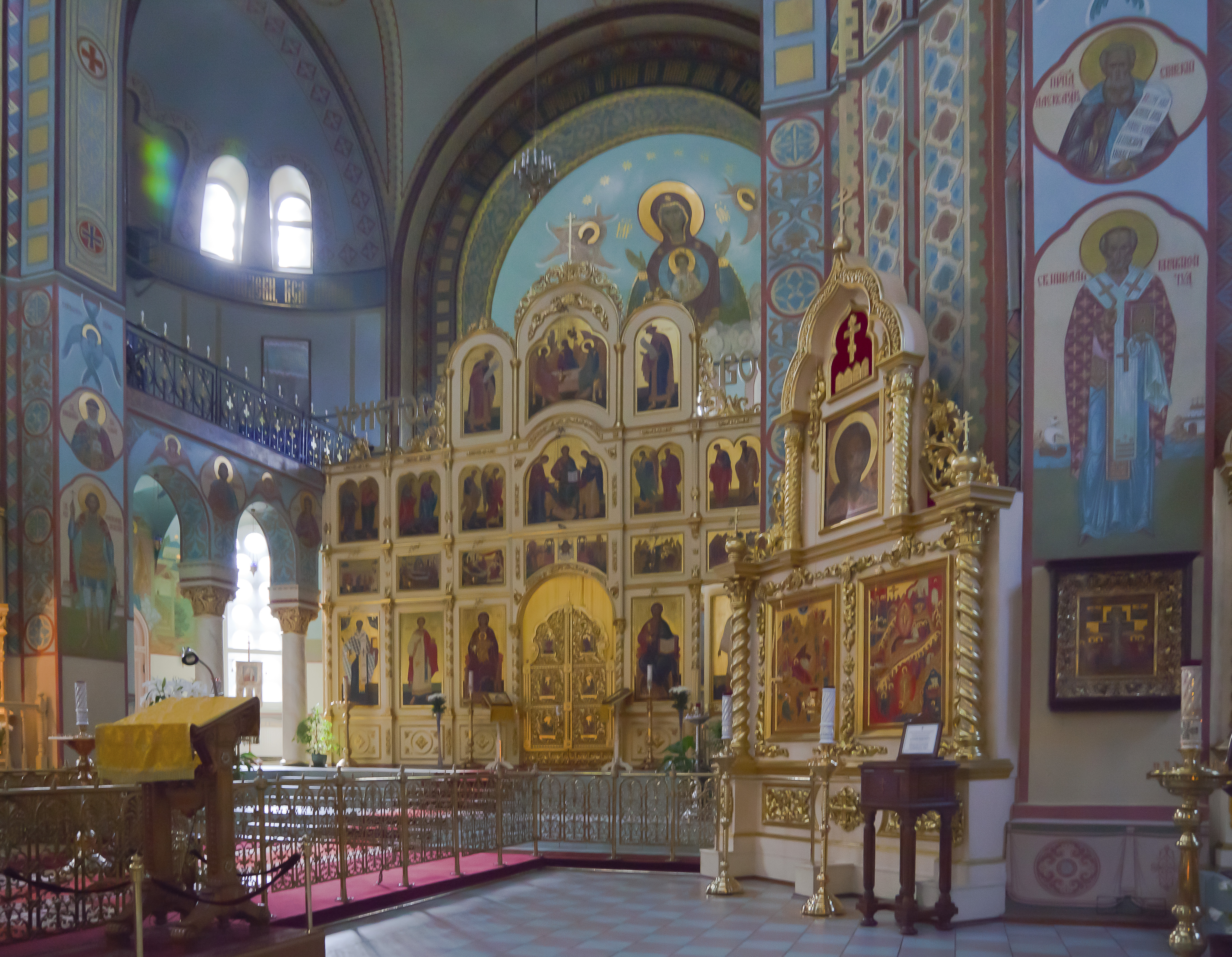 Cathedral of the Nativity of Christ, Riga, Latvia